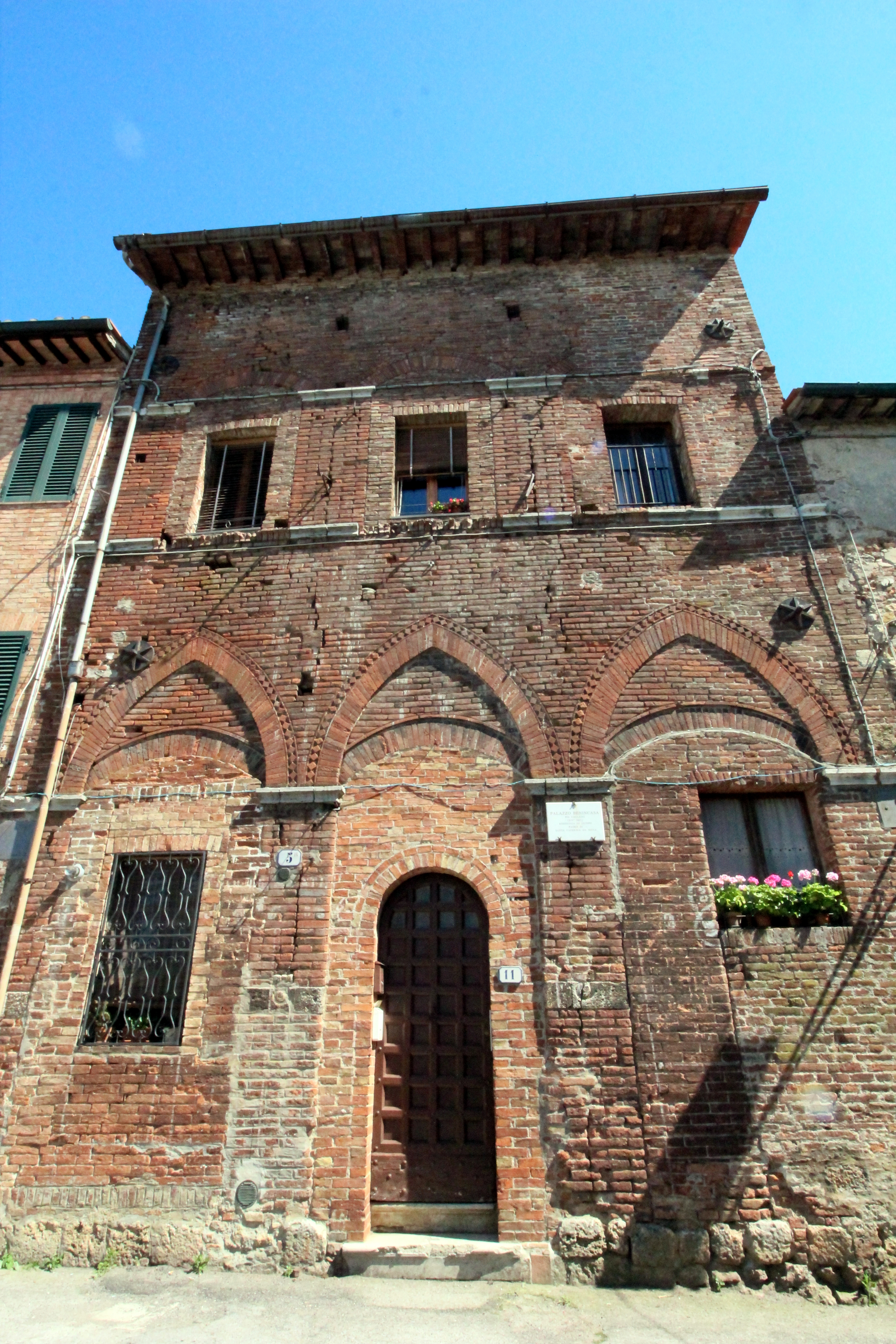 Palace Palazzo Callaini in Monticiano, Province of Siena, Tuscany, Italy